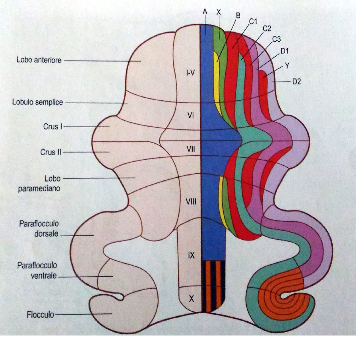 The image shows cerebellum zones.